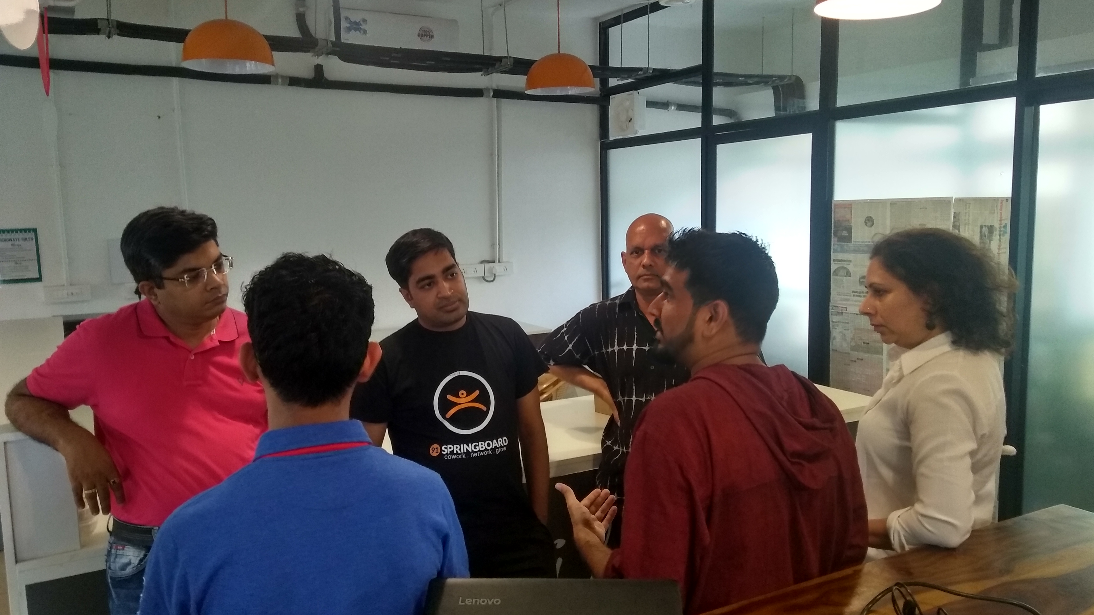 Startup event in Goa, May 2018. Held at 91Sprinboard in Panjim.